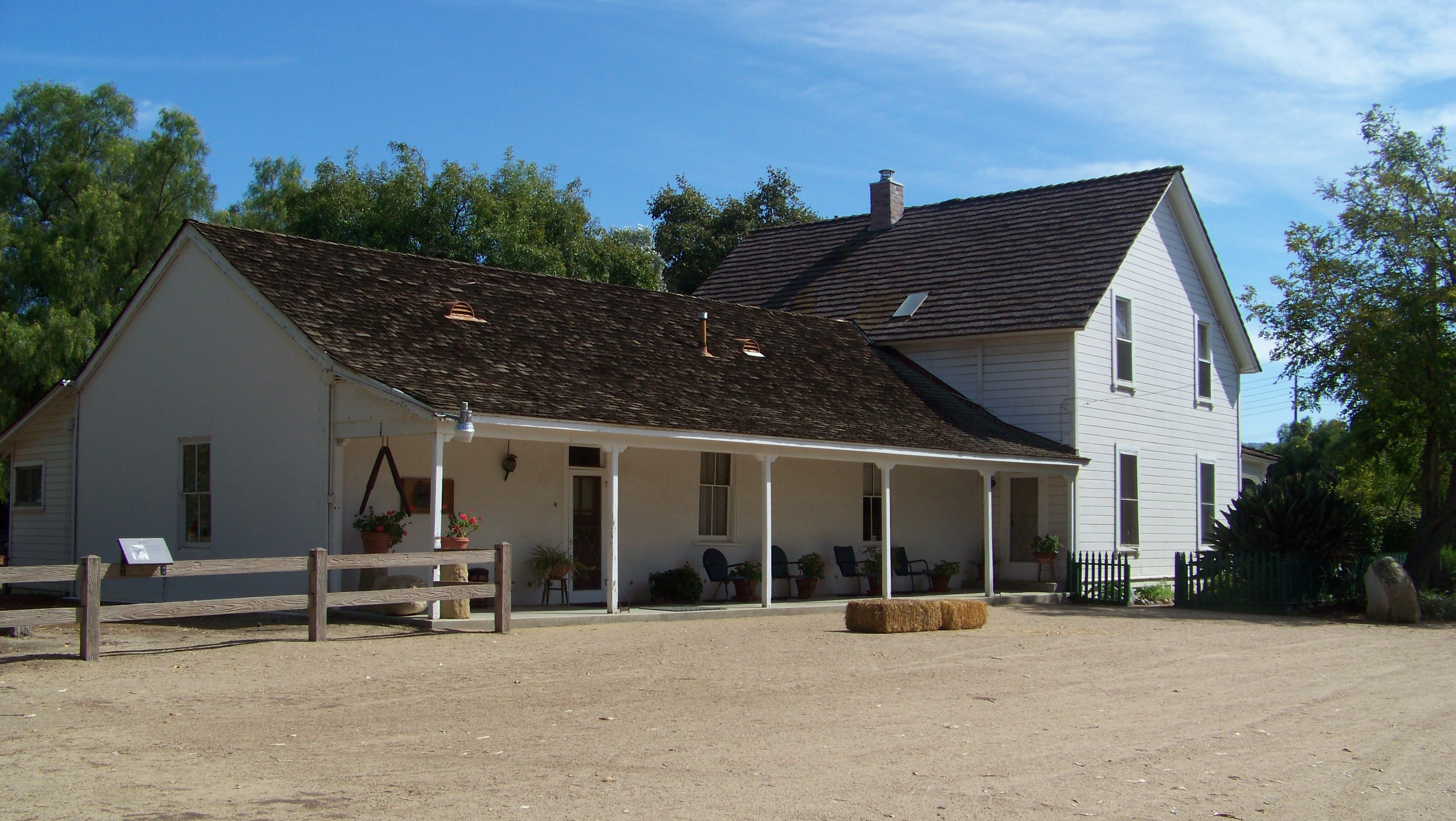 Photograph of the Simi Adobe-Strathearn House after a rainy day.